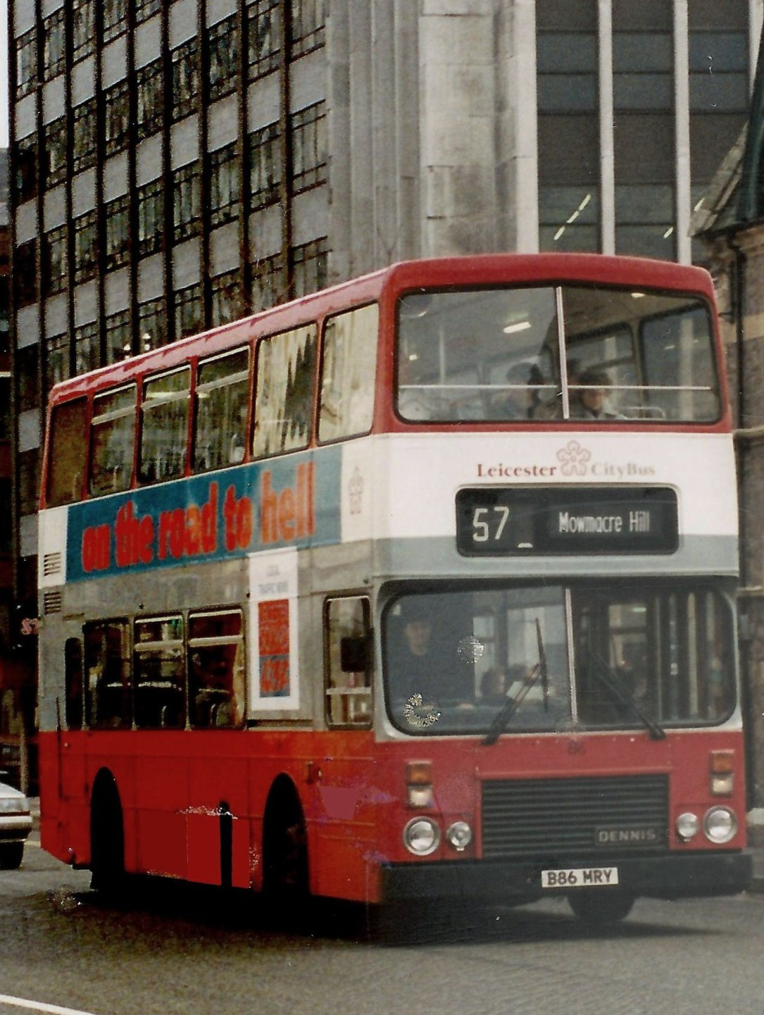 East Lancs bodied Dennis Dominators (Leicester CityBus)